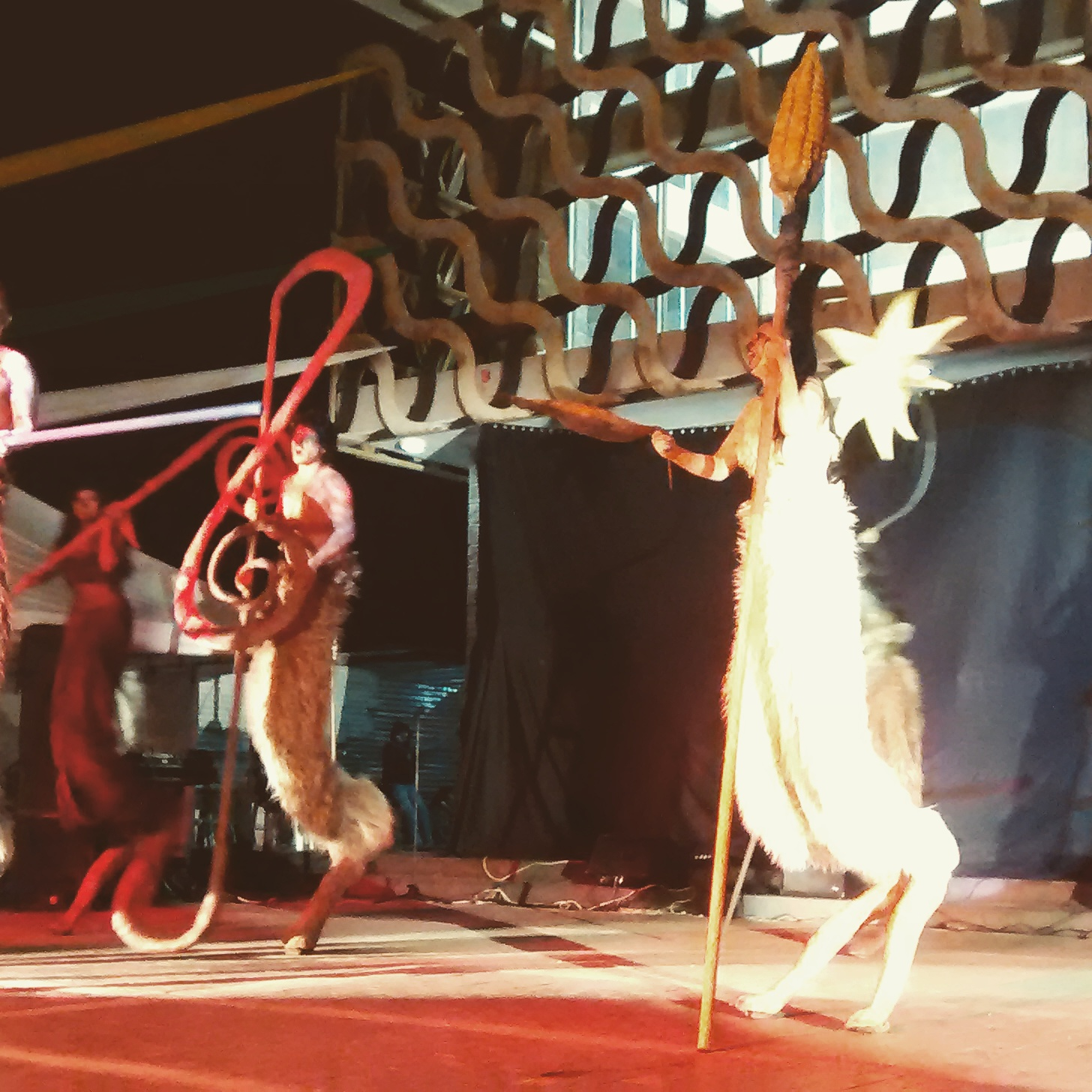 Work the theatre group Pecerros the long March of the represent of Peru at the close of the FITMO II